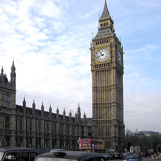 The Clock Tower, from Westminster Bridge.